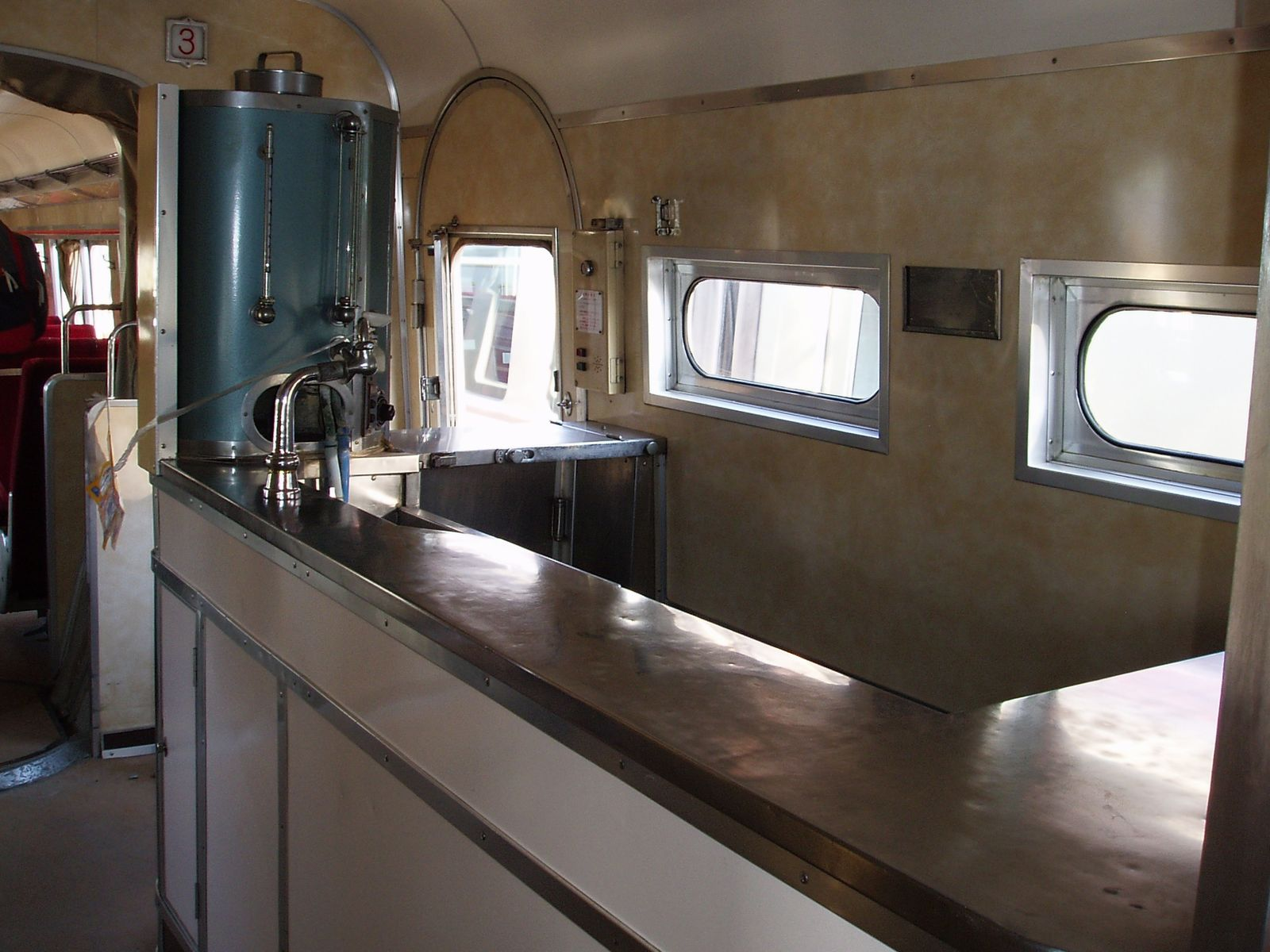 Buffet of EMU,Odakyu Electric Railway type 3000 series.